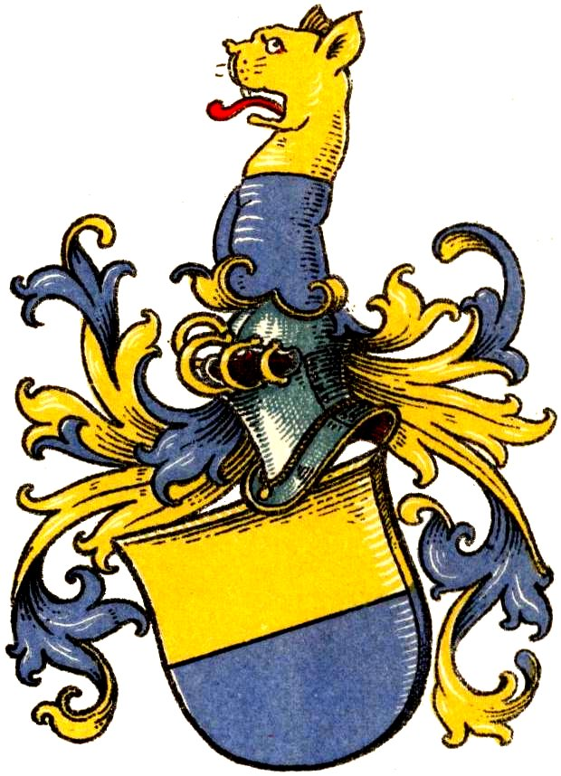 Coat of arms Bernsau